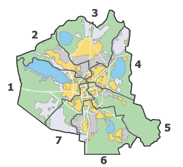 Administrative divisions of Yekaterinburg